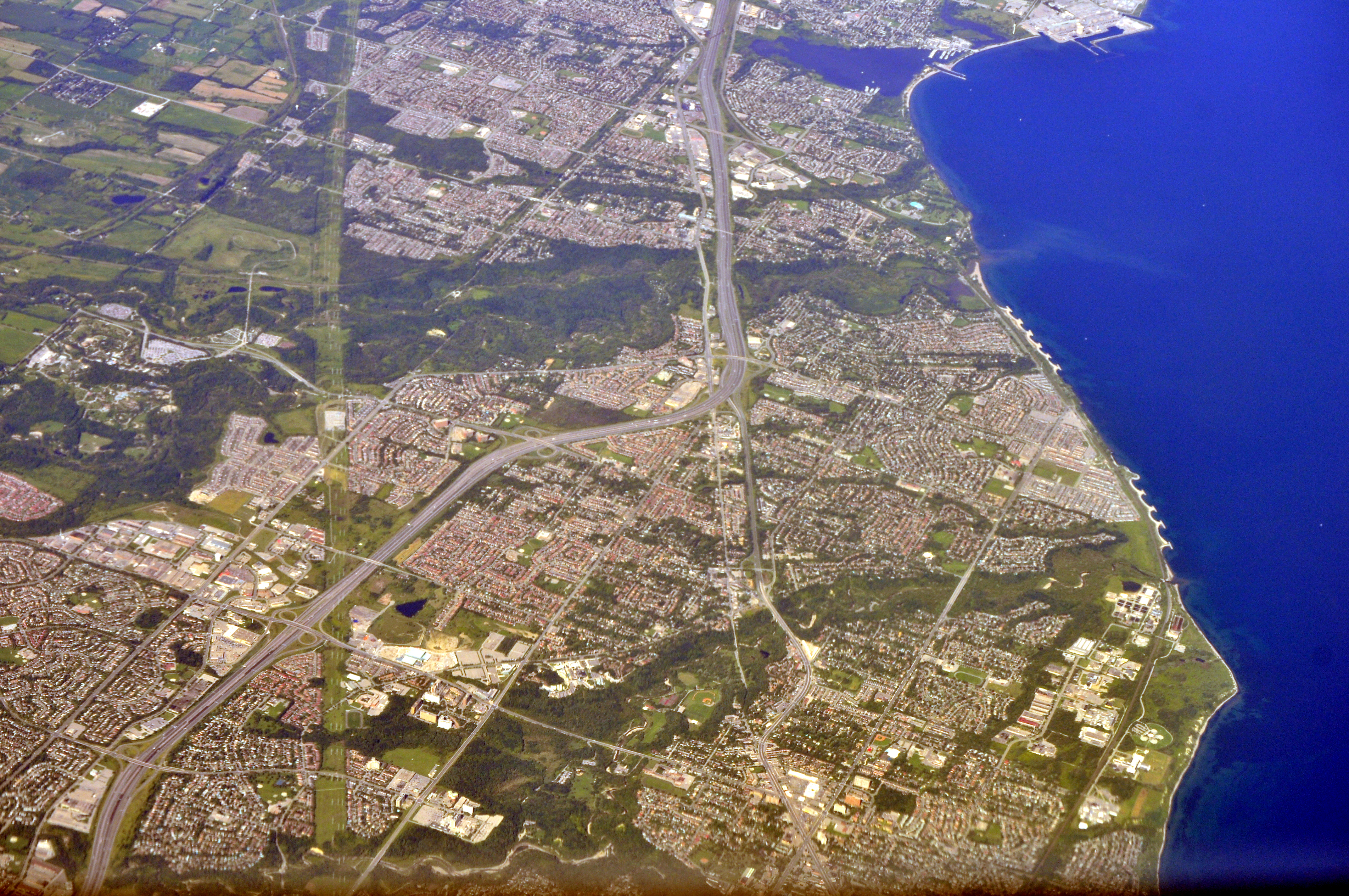 Aerial view of Scarborough and Pickering, Ontario.